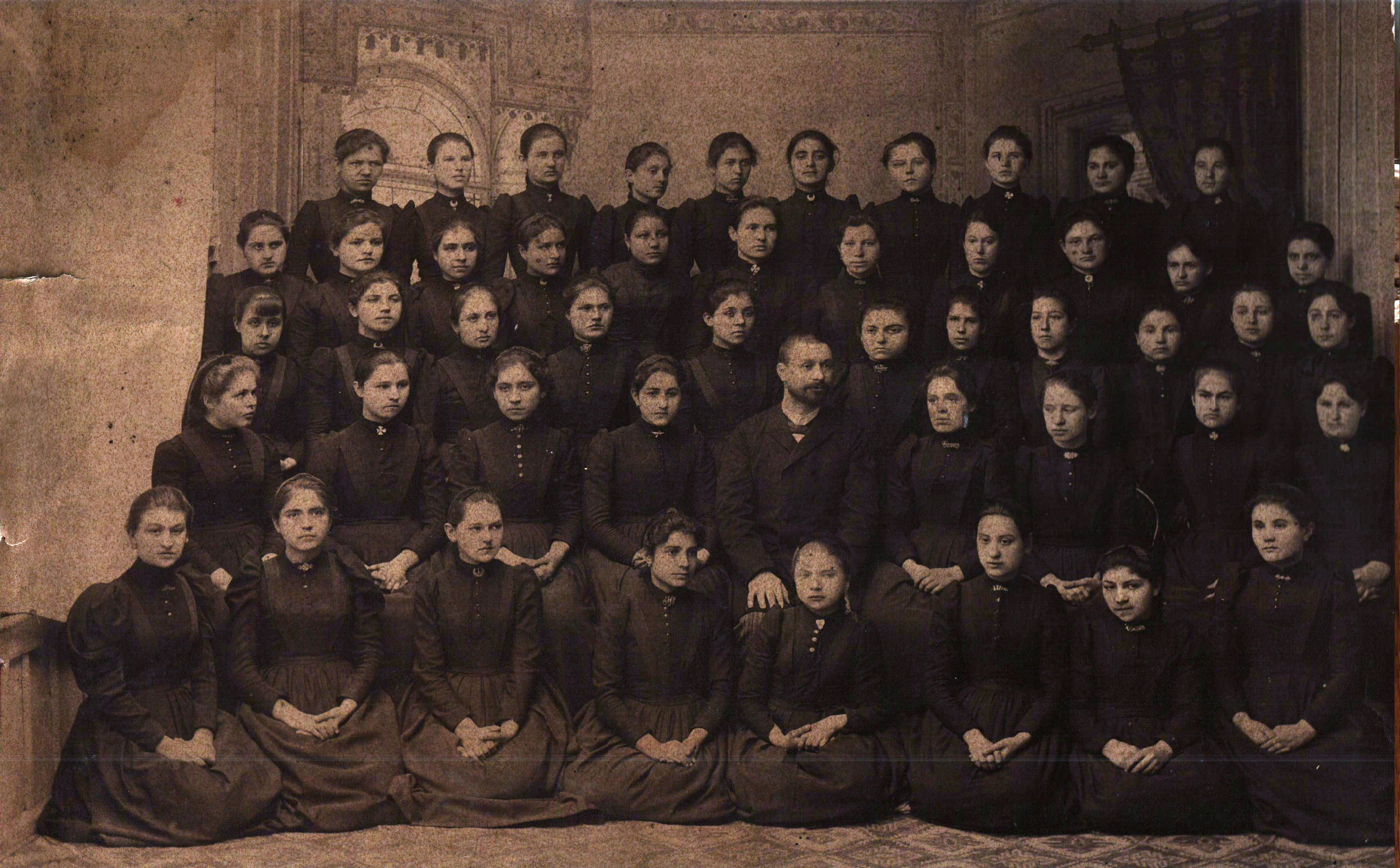 Zlatina Nedeva with classmates in Tarnovo Girls' High School.